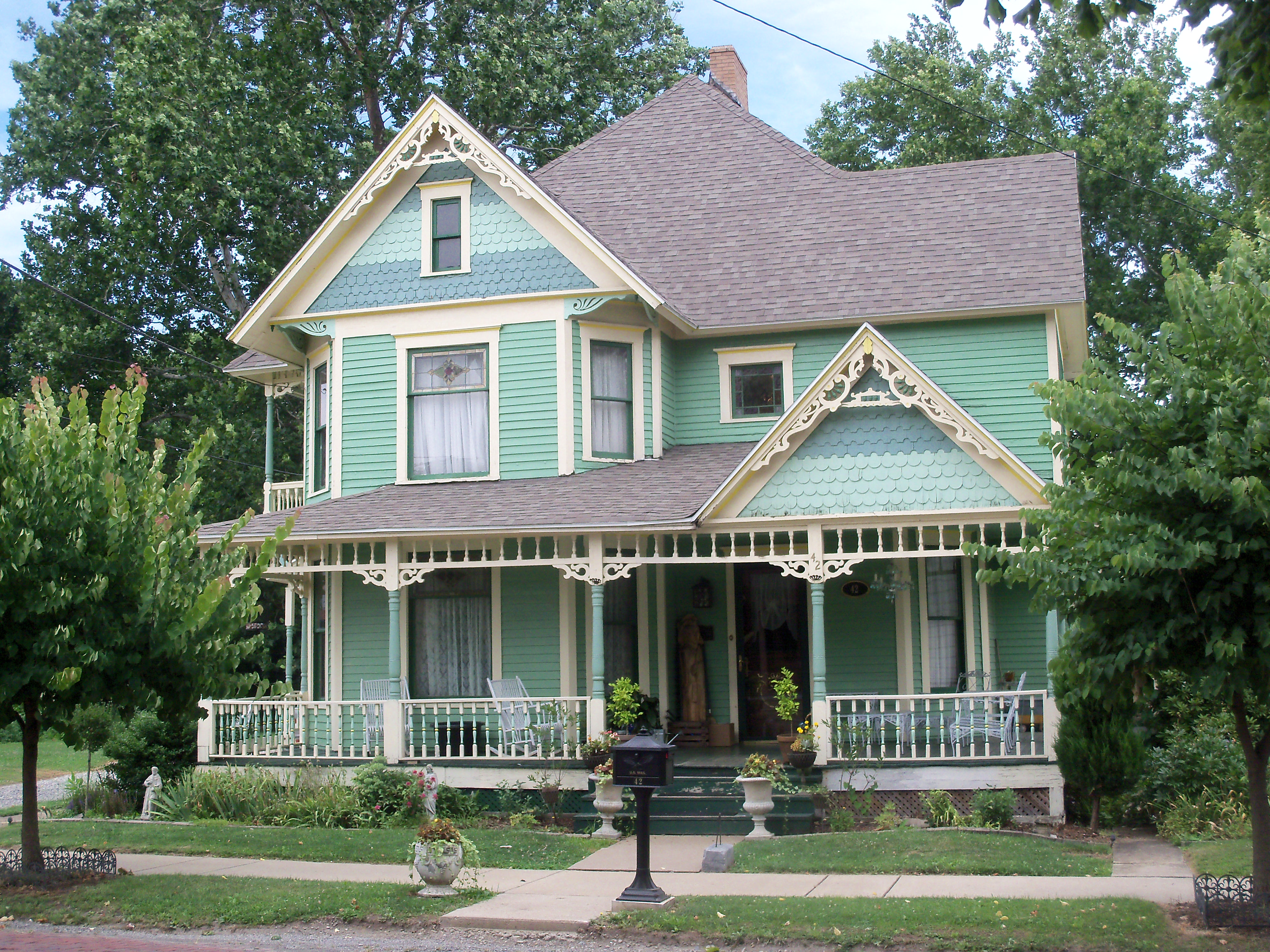 Ann E. Lewis Bernhard House, is a site on the National Register of Historic Places in Jefferson County, Ohio.